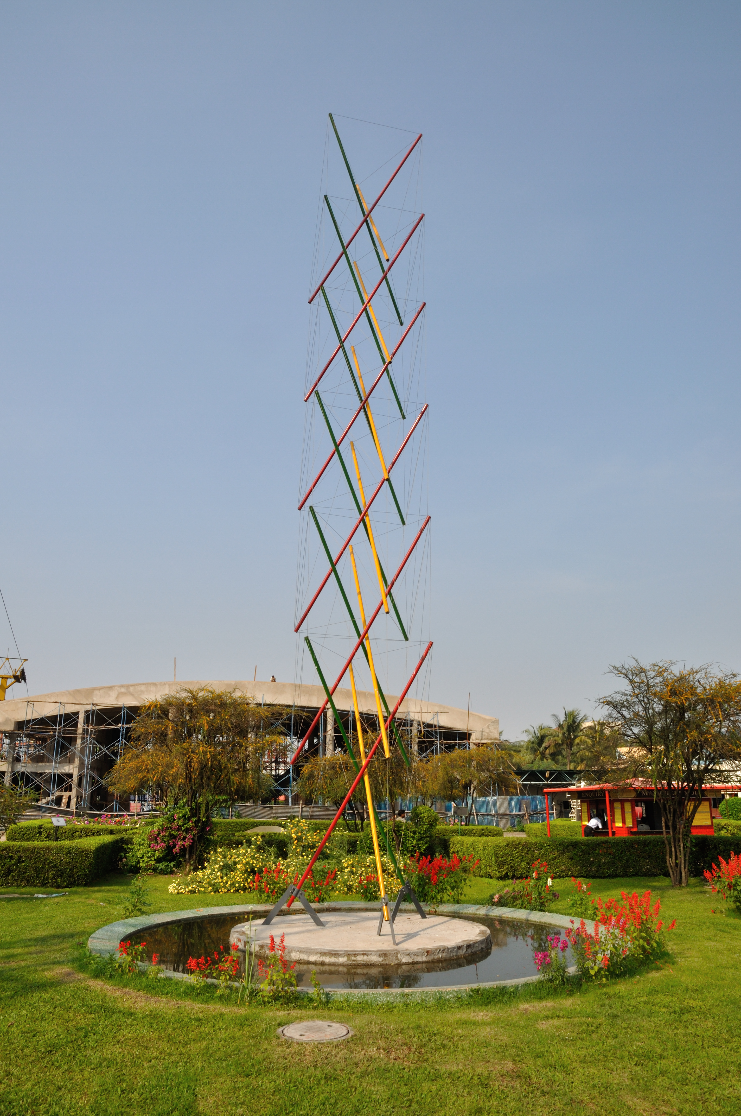 Photographed in Kolkata